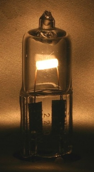 Halogen Bipin bulb w/ reflector.